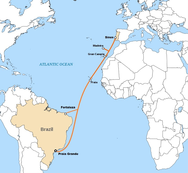 Ellalink Submarine Cable map routes